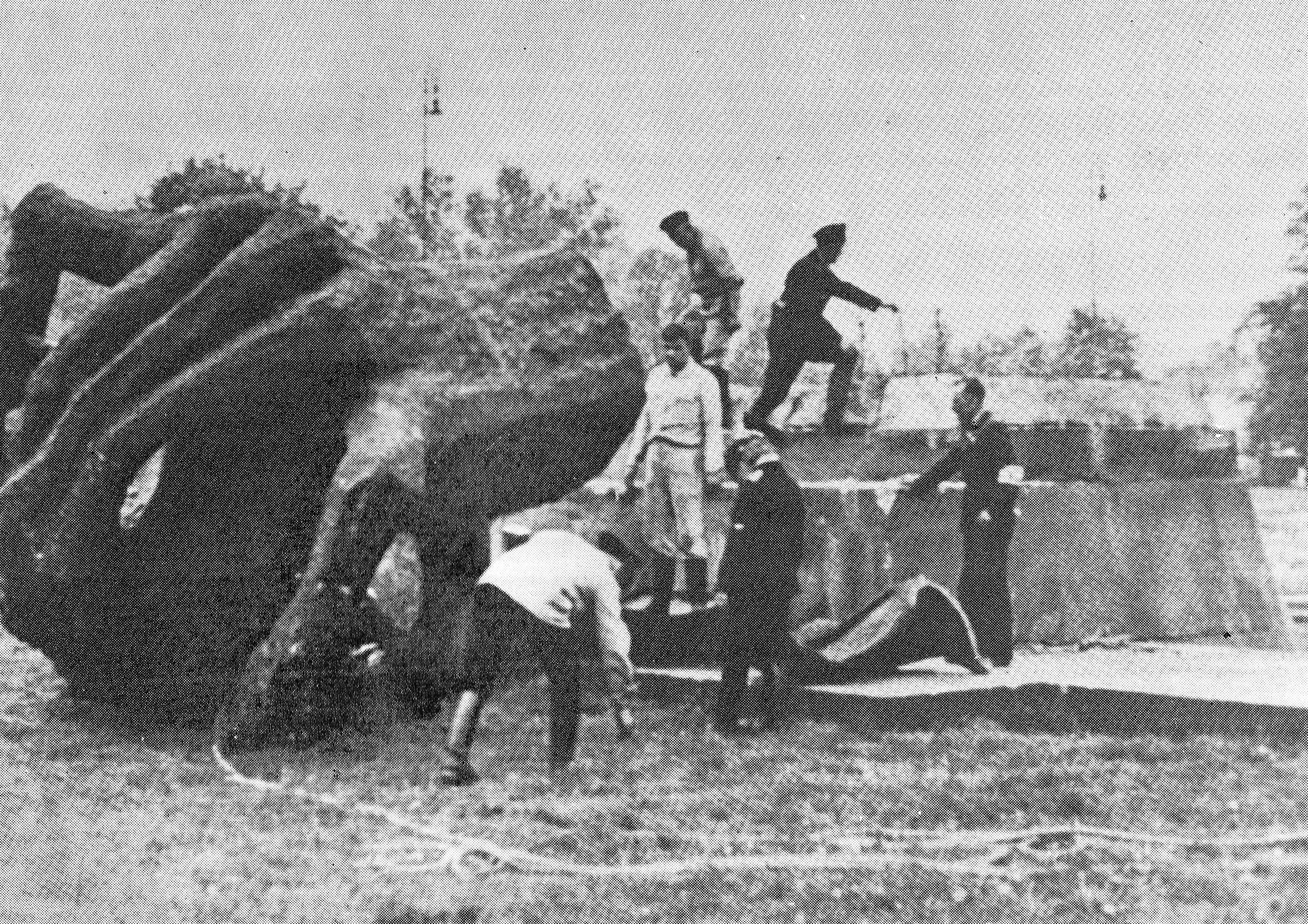 Monument to Frederick Chopin in Warsaw destroyed by the Germans